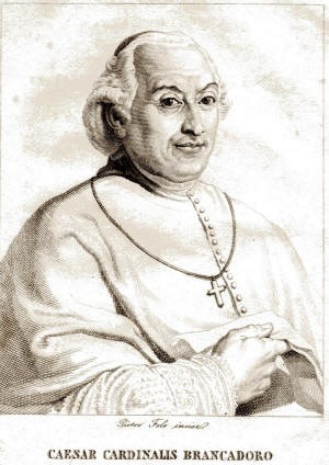 Cesare Brancadoro, Kardinal (1755-1837)